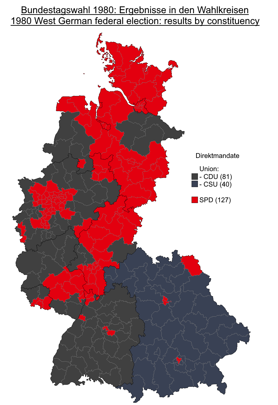 Results of the (West) German federal elections of 1980, showing direct seats won by party